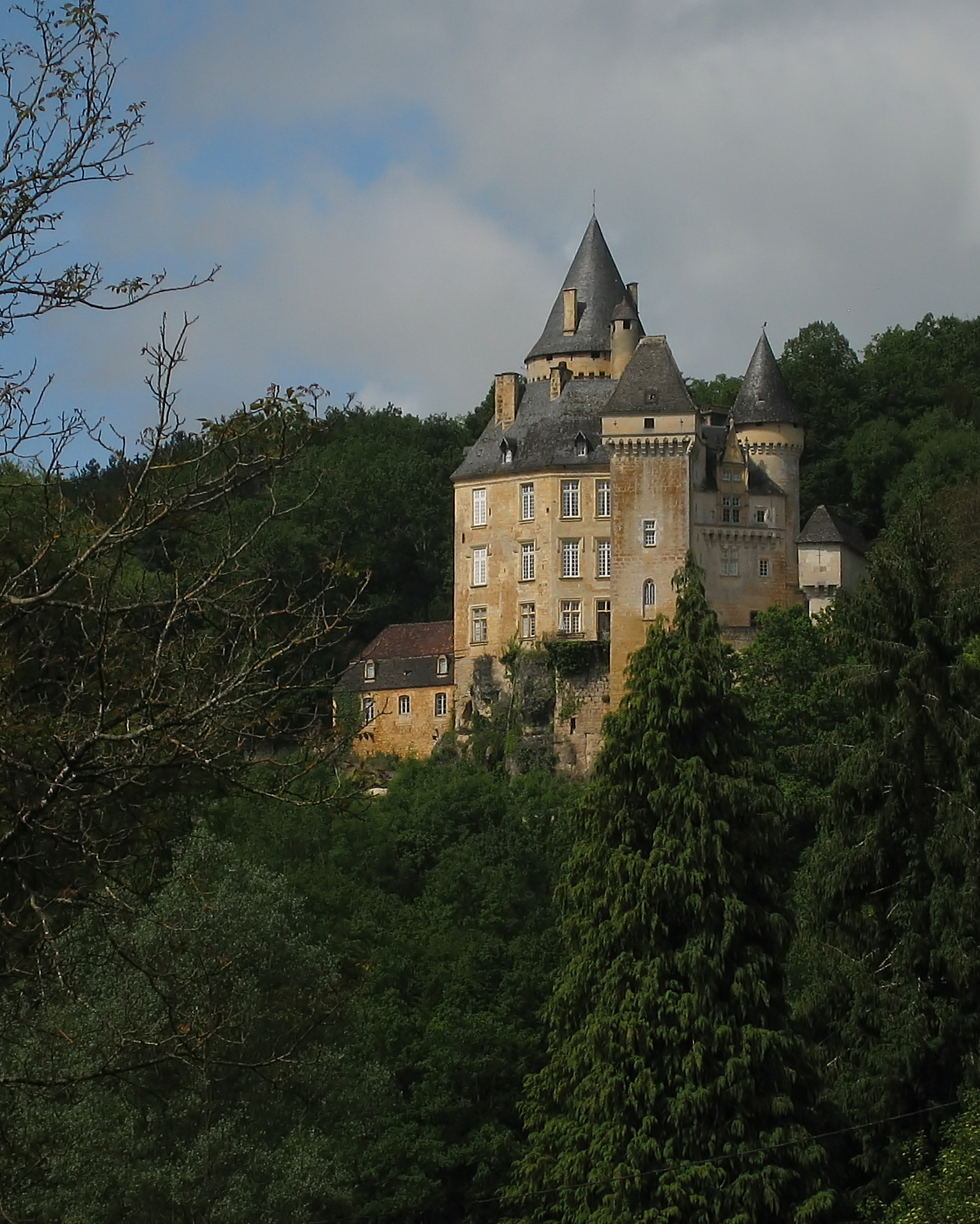 Château de La Roque near the village of Saint-Cyprien, Département Dordogne/France